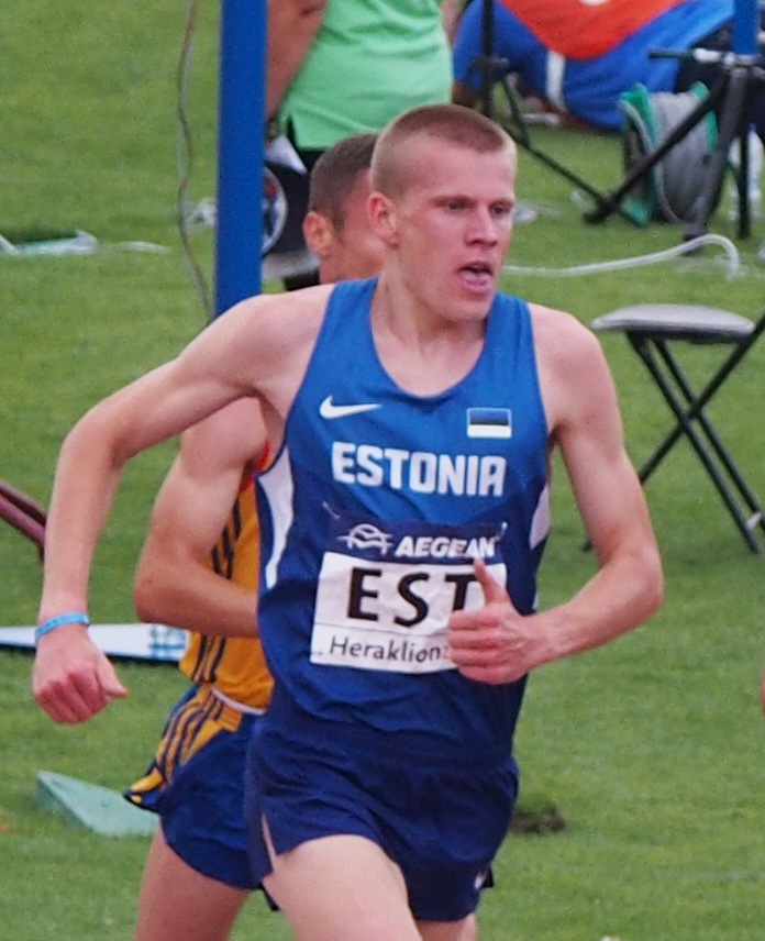 Kaur Kivistik during the 3,000 steeplechase race at 2015 European Team Championships First League.